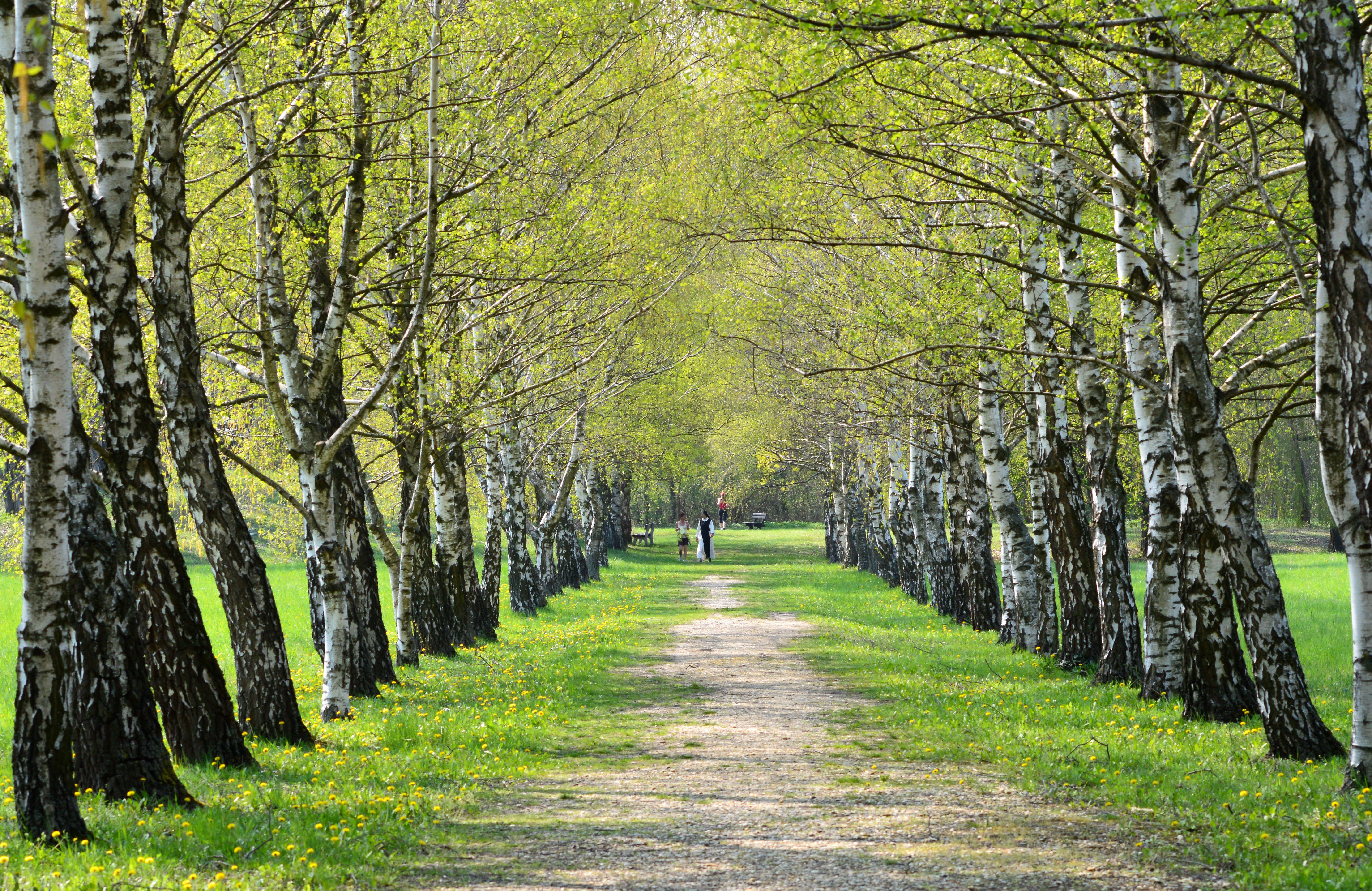 Avenue with birches in the park of the health resort in the monastery of Marienkron in Mönchhof, Burgenland, Austria